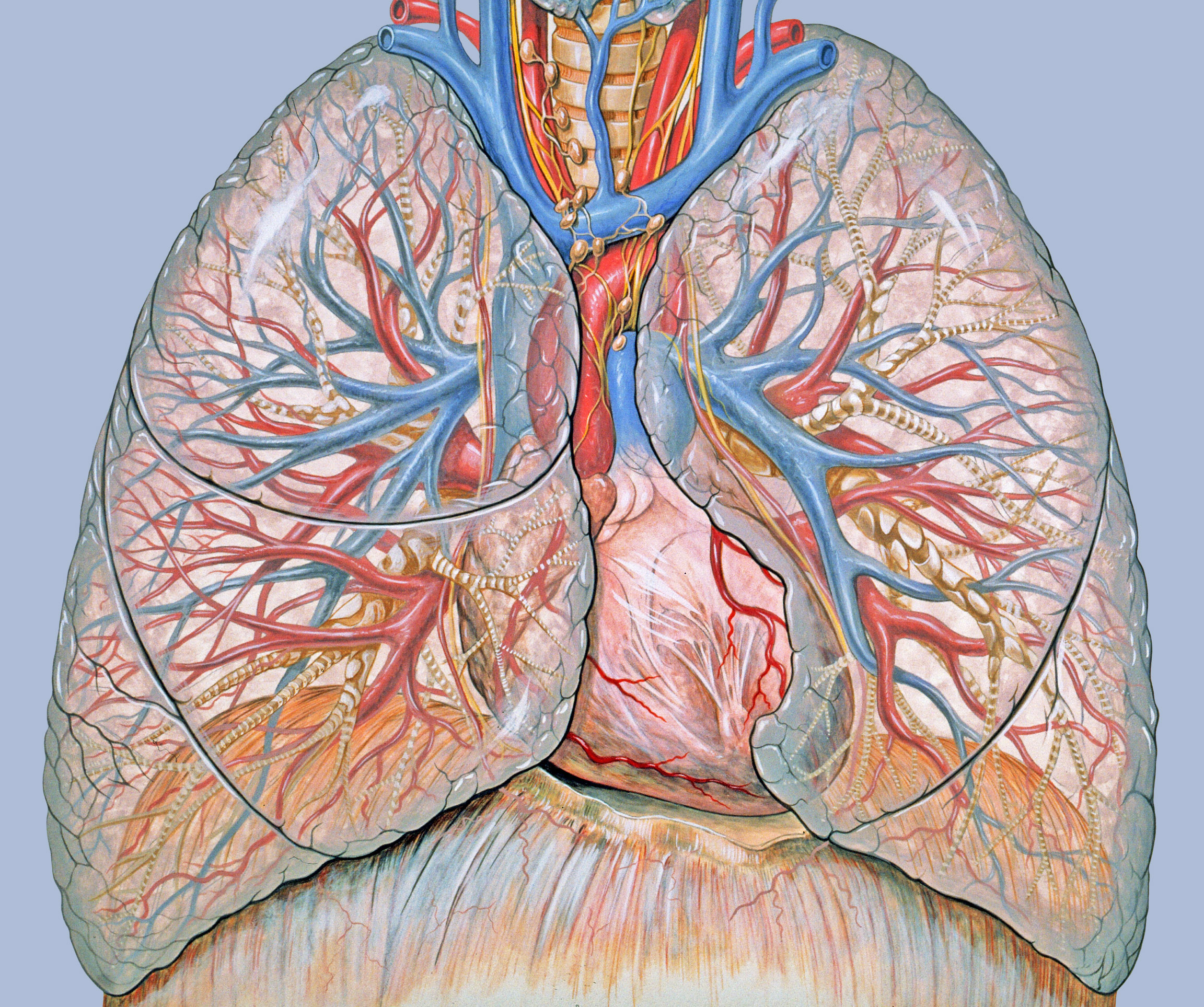 edit General thoracic anatomy, done specifically to support chest and heart imaging techniques. Generated for multimedia teaching projects by the Yale University School of Medicine, Center for Advanced Instructional Media, 1987-2000. Errors[edit] Pulmonary arteries generally run alongside bronchi instead of being separate. (Pulmonary Artery Anatomy. University of Virginia (2013).) Each lobar vessel is in reality more clearly directed towards its corresponding lung lobe. Keywords[edit] chest, lungs, heart, trachea, anatomy, thoracic, thorax, pulmonary, anatomy, cardiac anatomy, diaphragm